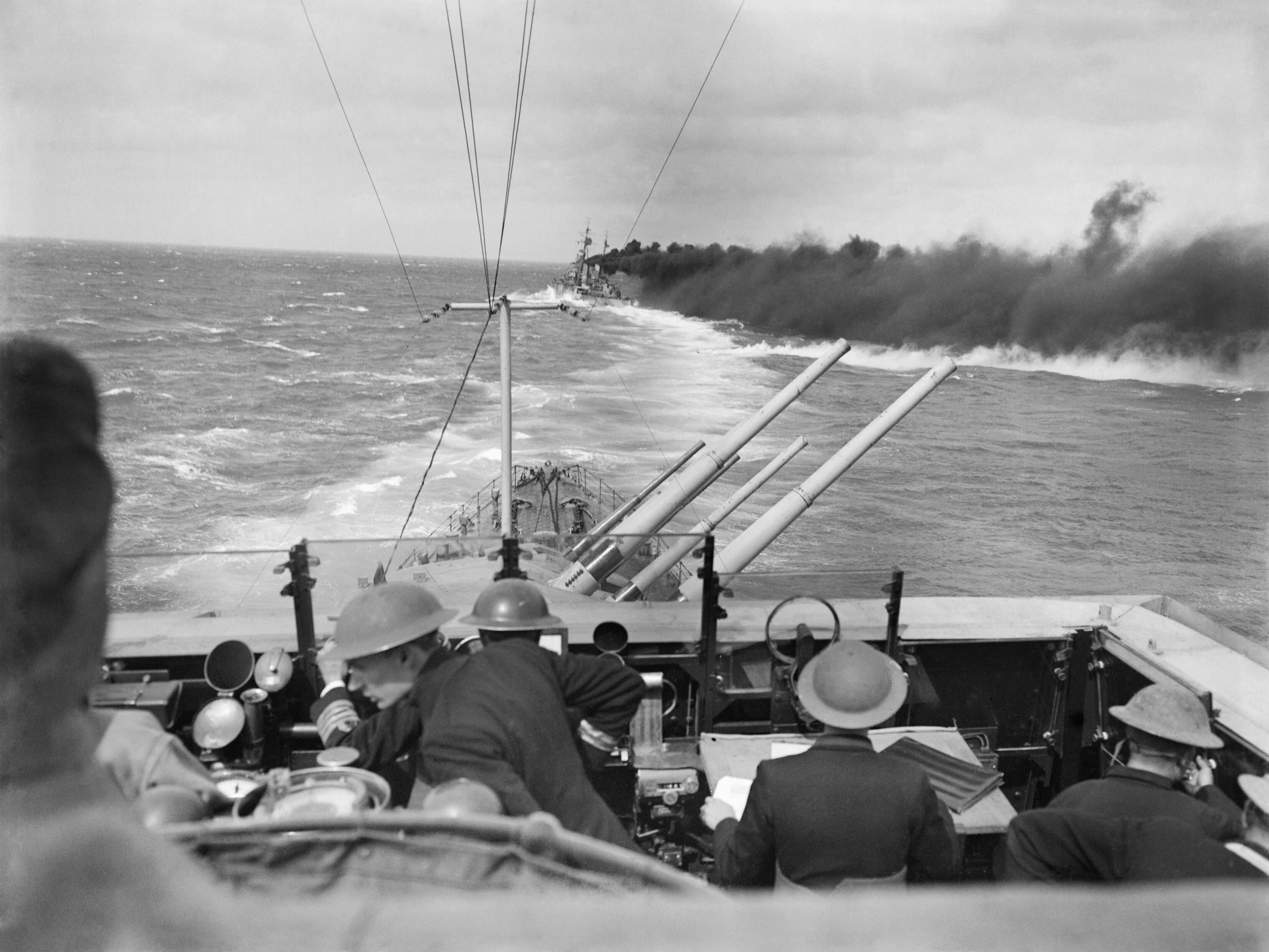 Royal Navy Convoy From Alexandria To Malta Meets and Engages Italian Warships in the Mediterranean, 22 March 1942 HMS CLEOPATRA throws out smoke to shield the convoy as HMS EURYALUS elevates her forward 5.25 inch guns to shell the Italian Fleet.